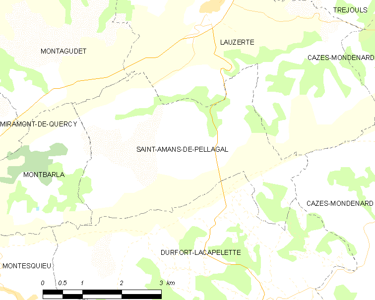 Map of French municipality Saint-Amans-de-Pellagal